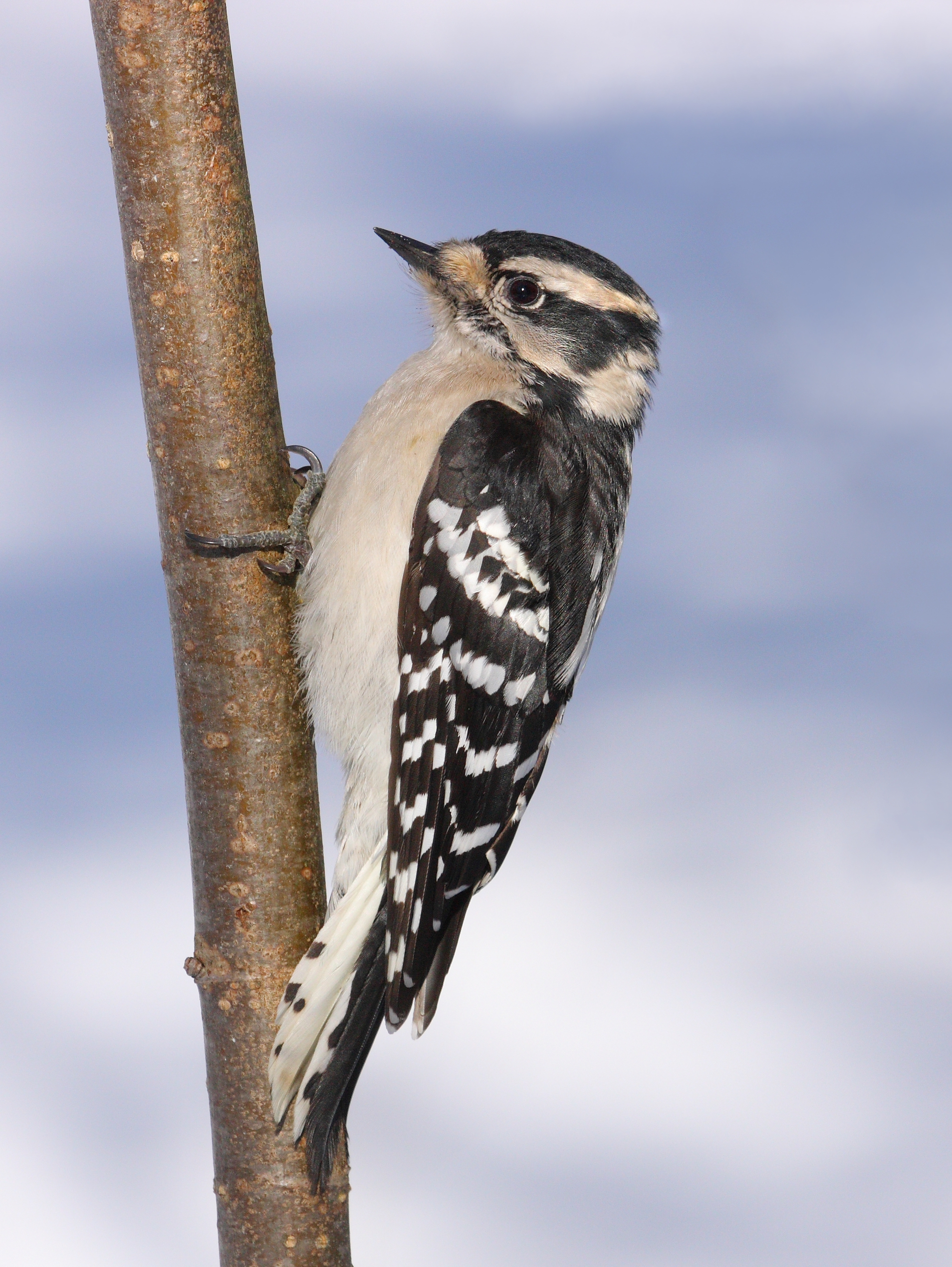 Downy Woodpecker, female, Cap Tourmente National Wildlife Area, Quebec, Canada.